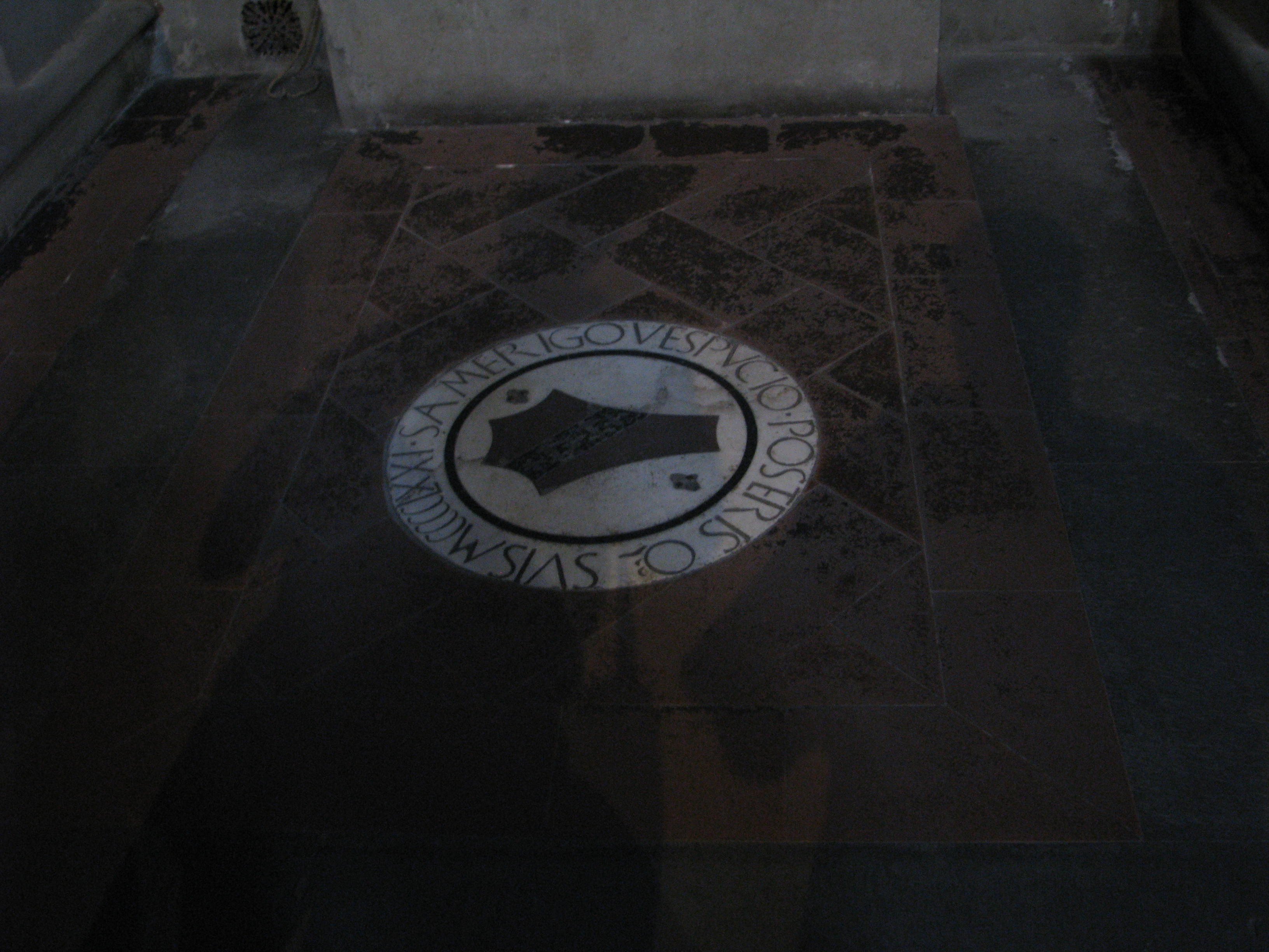 Tomb of Amerigo Vespucci, died 1471, actually the grandfather of the famous navigator.